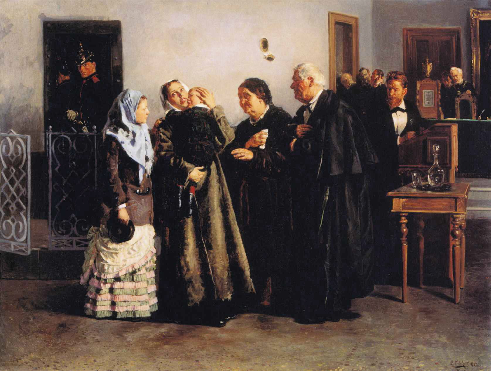 oil painting on canvas